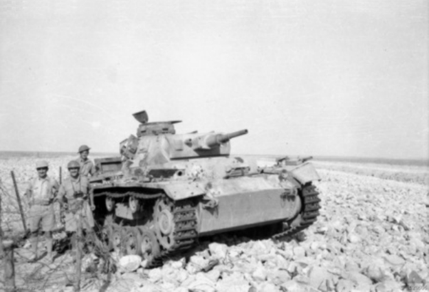 A German Panzer III Ausf.G tank destroyed during the eastern perimeter attack in the Tobruk battle, 14 September 1941.The officer with the field glasses is Lieutenant Colonel J.W. Crawford, commanding officer of the Australian 2/17th infantry battalion. On his right is Major Hodgman.